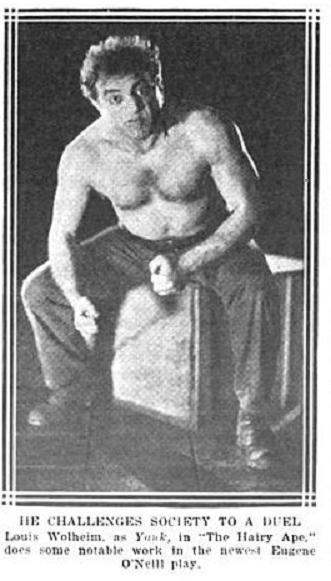 Louis Wolheim as Yank in "The Hairy Ape" by Eugene O'Neil .